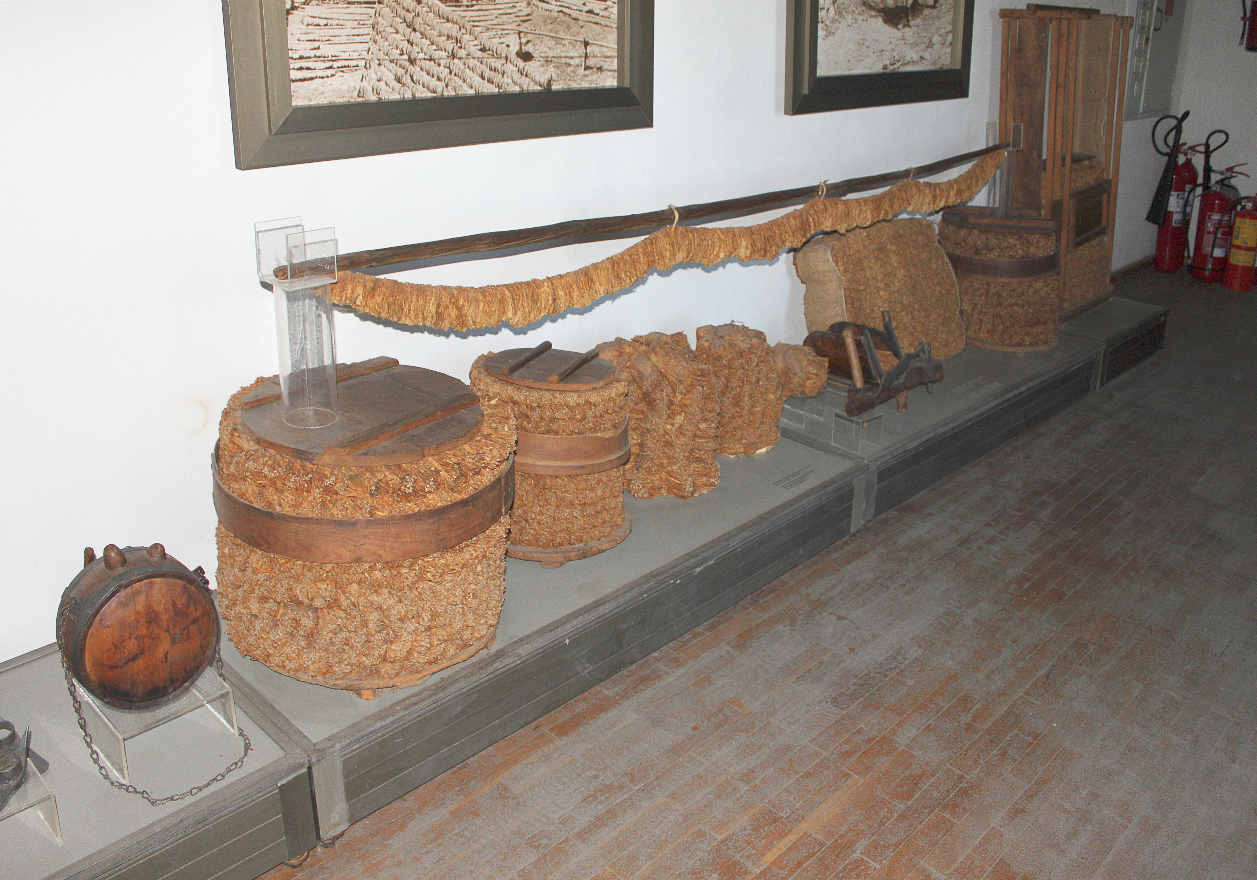 Kardzhali Museum of History, Kardzhali , Bulgaria